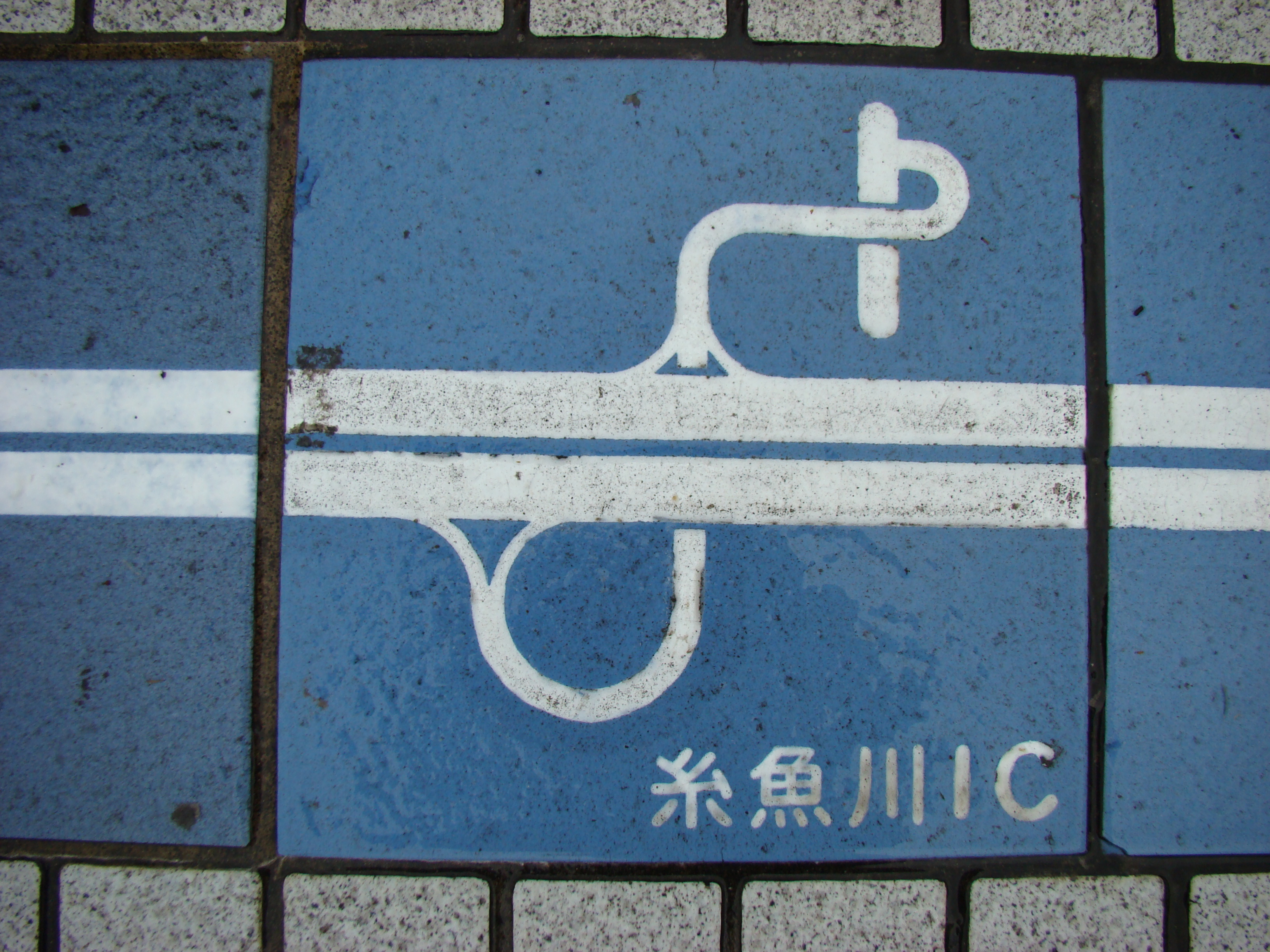 The tile which designed a shape of the Itoigawa Interchange（Hokuriku Expressway）（There is this tile in Hokuriku Expressway Nadachi-Tanihama Service Area.）. Place - Chayagahara,Joetsu City,Niigata Prefecture,Japan Date - August 9, 2009 Format - JPEG, 3264x2448pixel, 24bit colors. Photographer - NALA Wiki (talk)